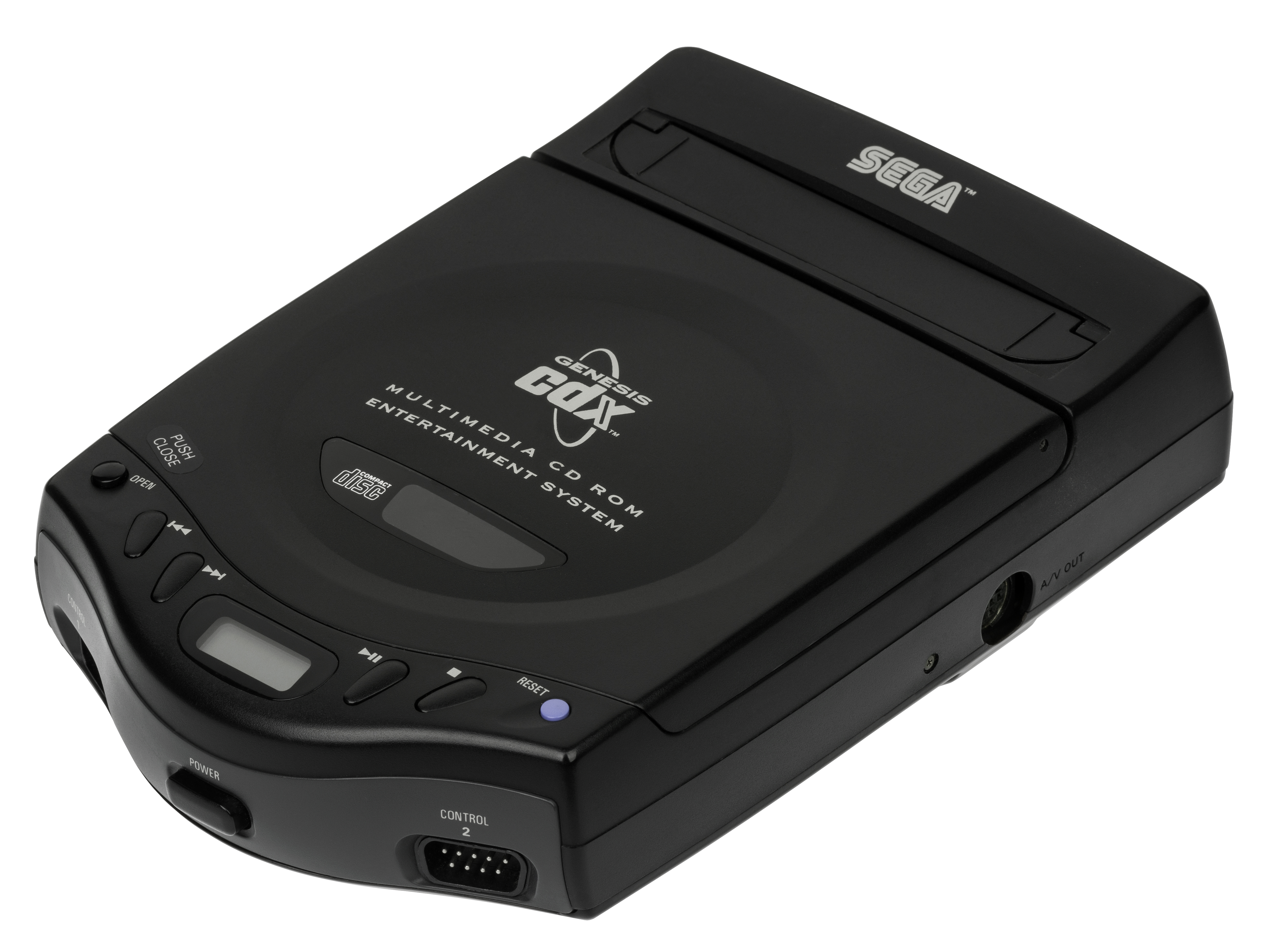 The Sega Genesis CDX (known as the Sega Multi-Mega in Europe and Japan) video game console. Released after the Sega Genesis and Sega CD, this high-end system incorporates both systems into a small and streamlined unit. Expensive and rare, the system could also be used as a portable CD player.